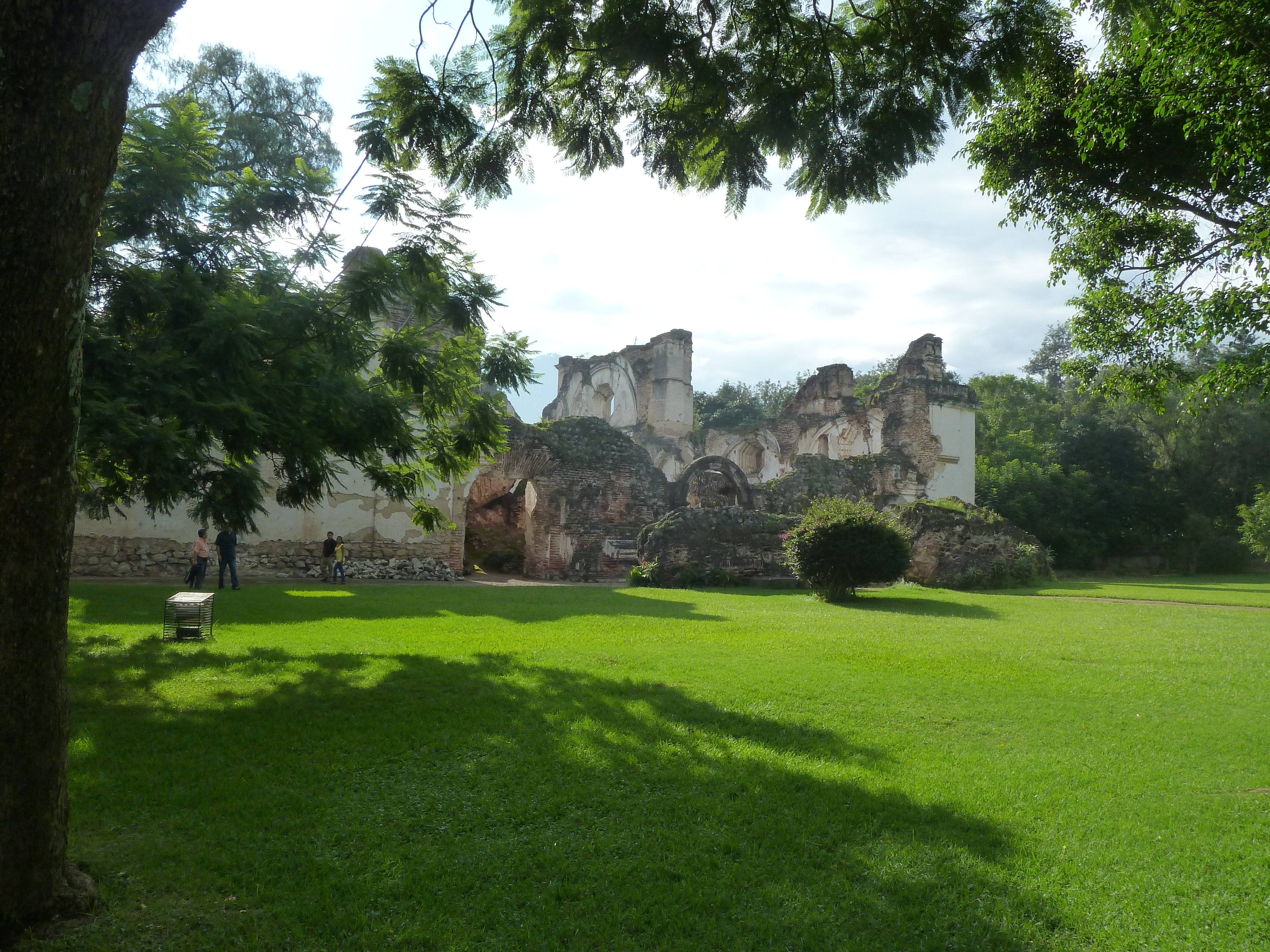 View of the architectural complex and park from near the main gate.